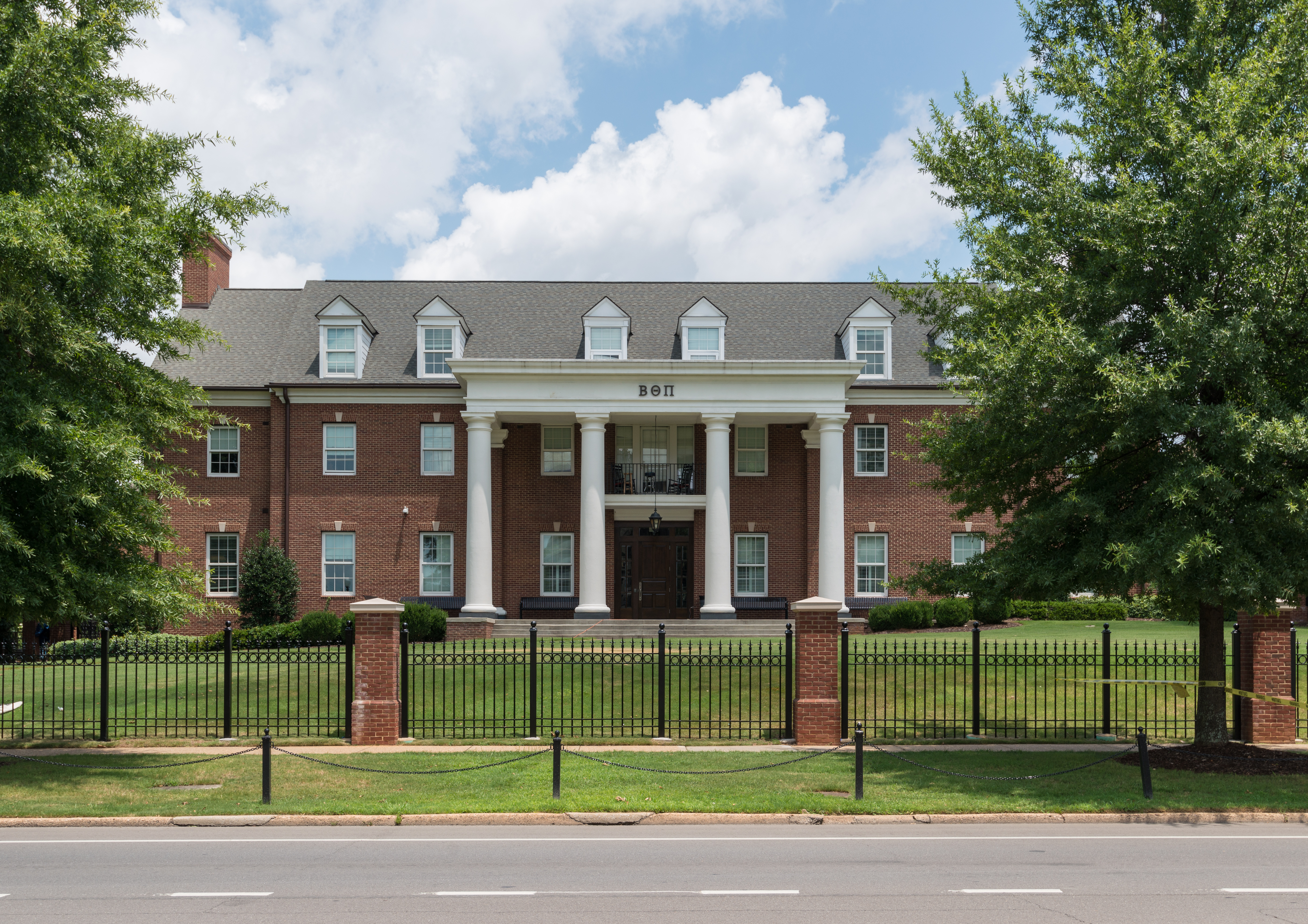 A south view of the Beta Theta Pi fraternity house, University of Alabama, Tuscaloosa